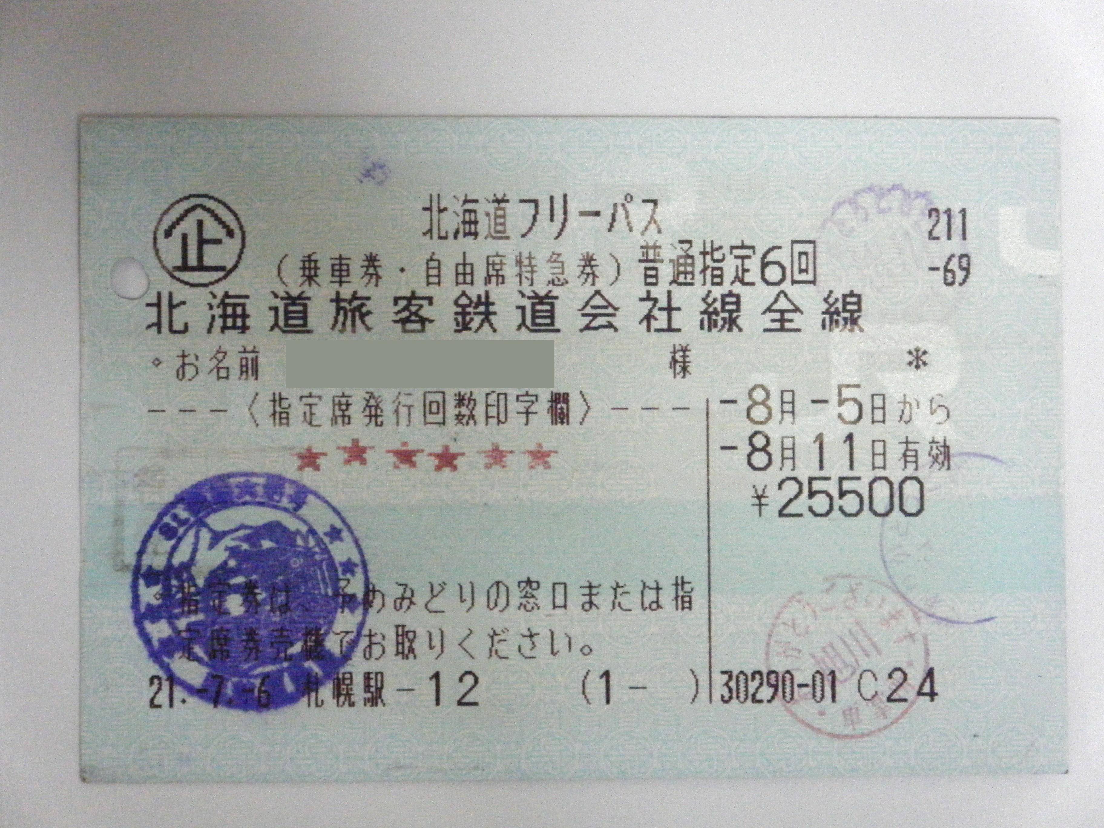 Hokkaido Free Pass for ordinary cars